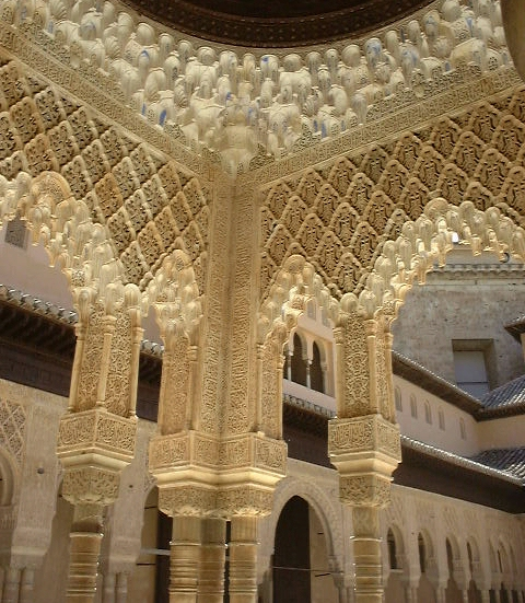 Canopy with stonework